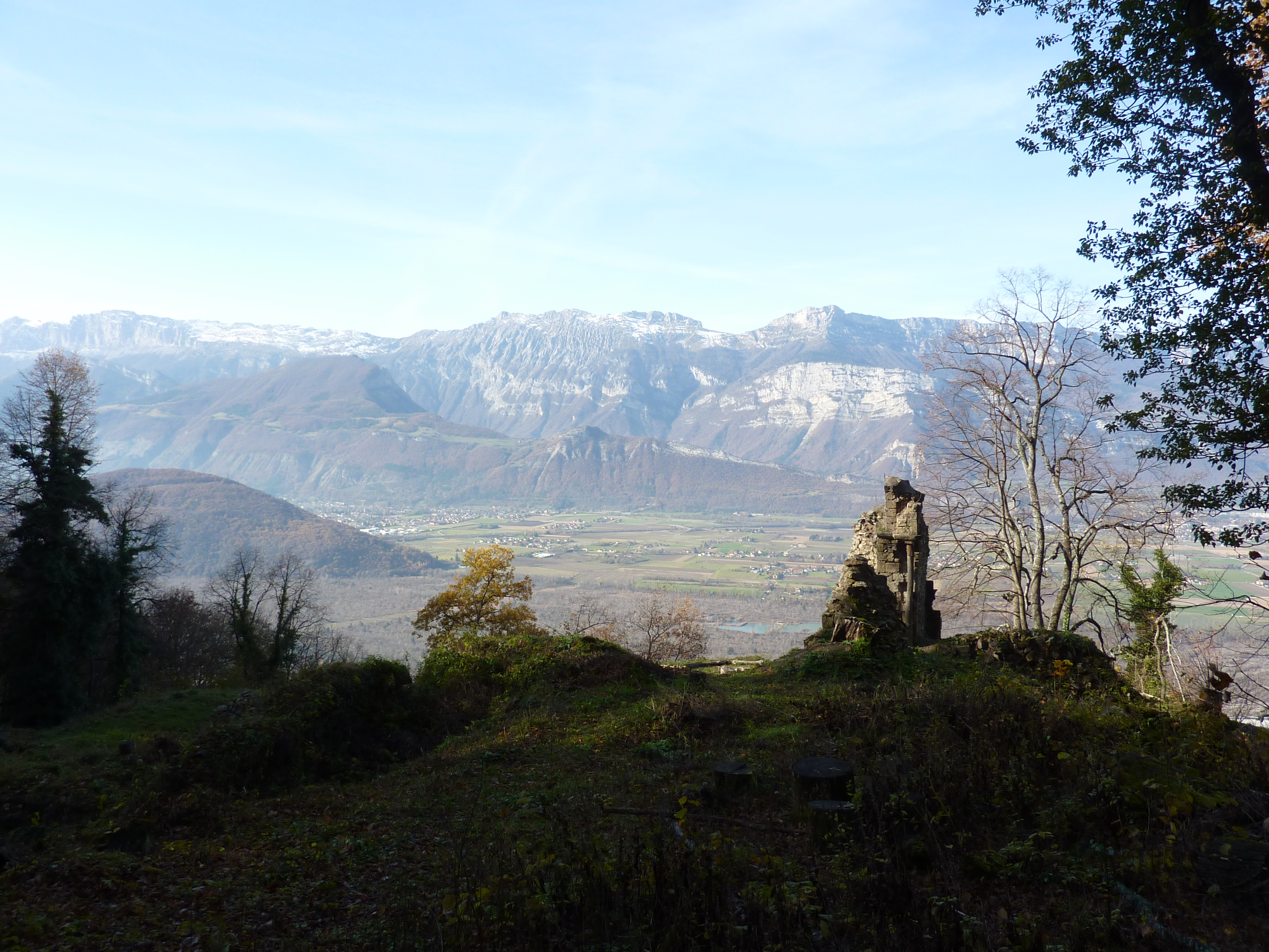 Saint-Michel de Connexe priory ruins, Champ-sur-Drac, Isère, France.